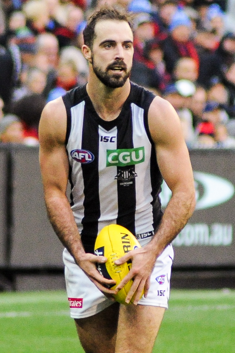 Steele Sidebottom during the AFL round twelve match between Melbourne and Collingwood on 12 June 2017 at the Melbourne Cricket Ground in Melbourne, Victoria.